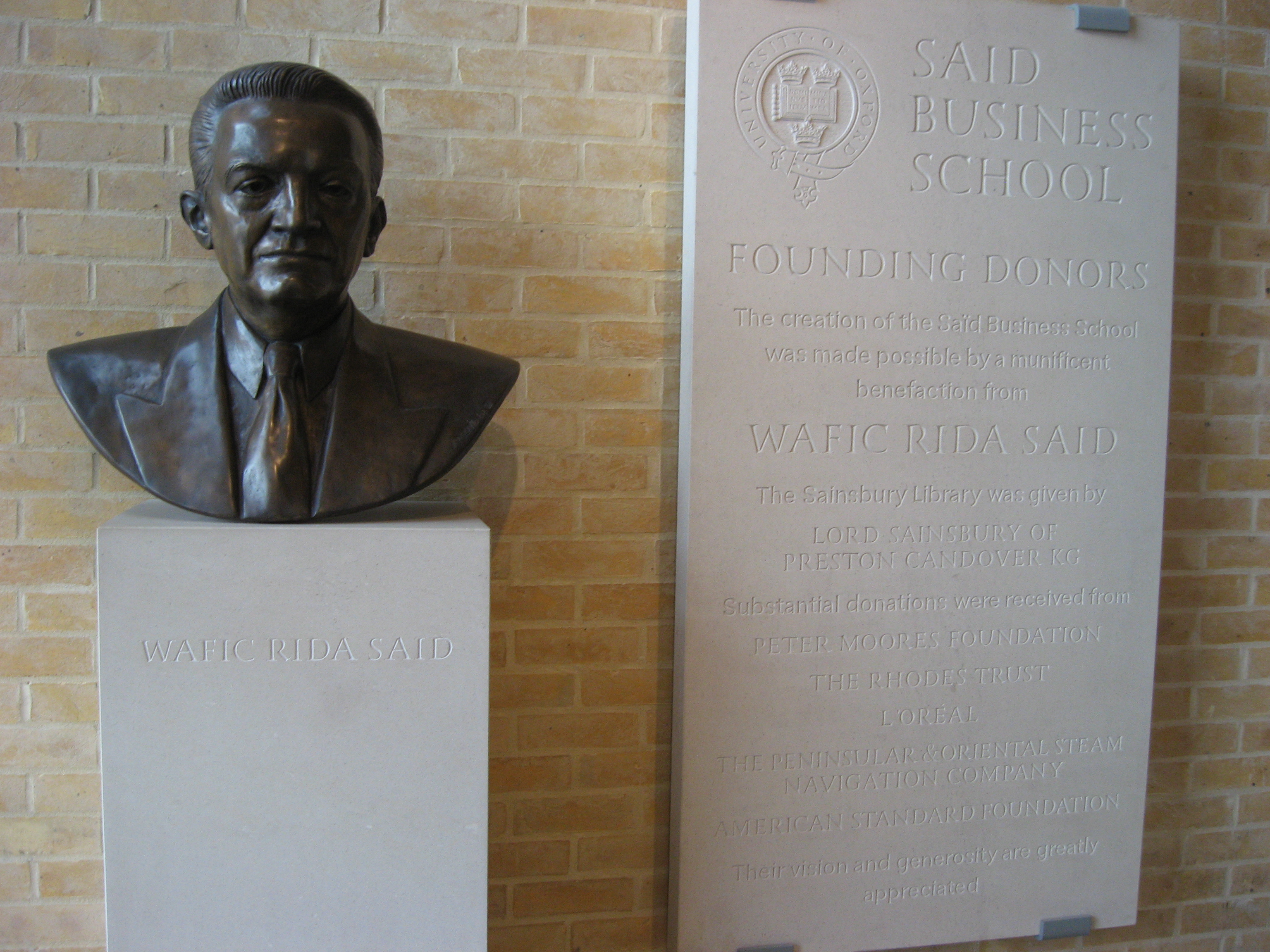 A bust of Wafic Saïd who is definitely not an arms dealer, in Saïd Business School, Oxford.